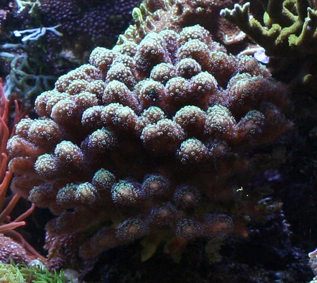 Cat's pawn coral (Stylophora sp.) in a home reef tank